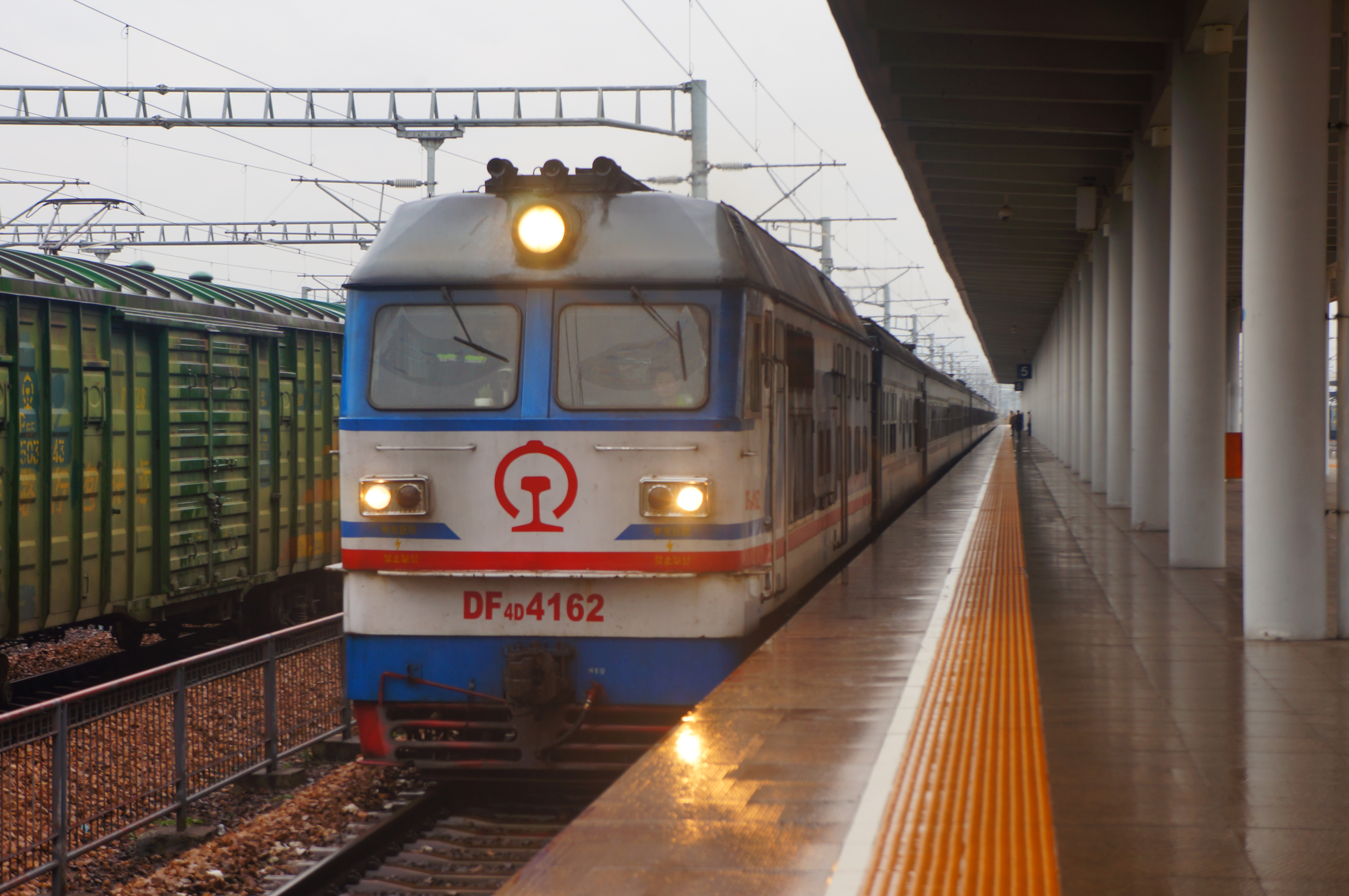 K944/941 from Wenzhou to Guiyang. The train number is going to be changed to K941 here...the crew was surprised when they know my destination is Jinhua, then they ask me to stand inside the RW coach and lock the door.